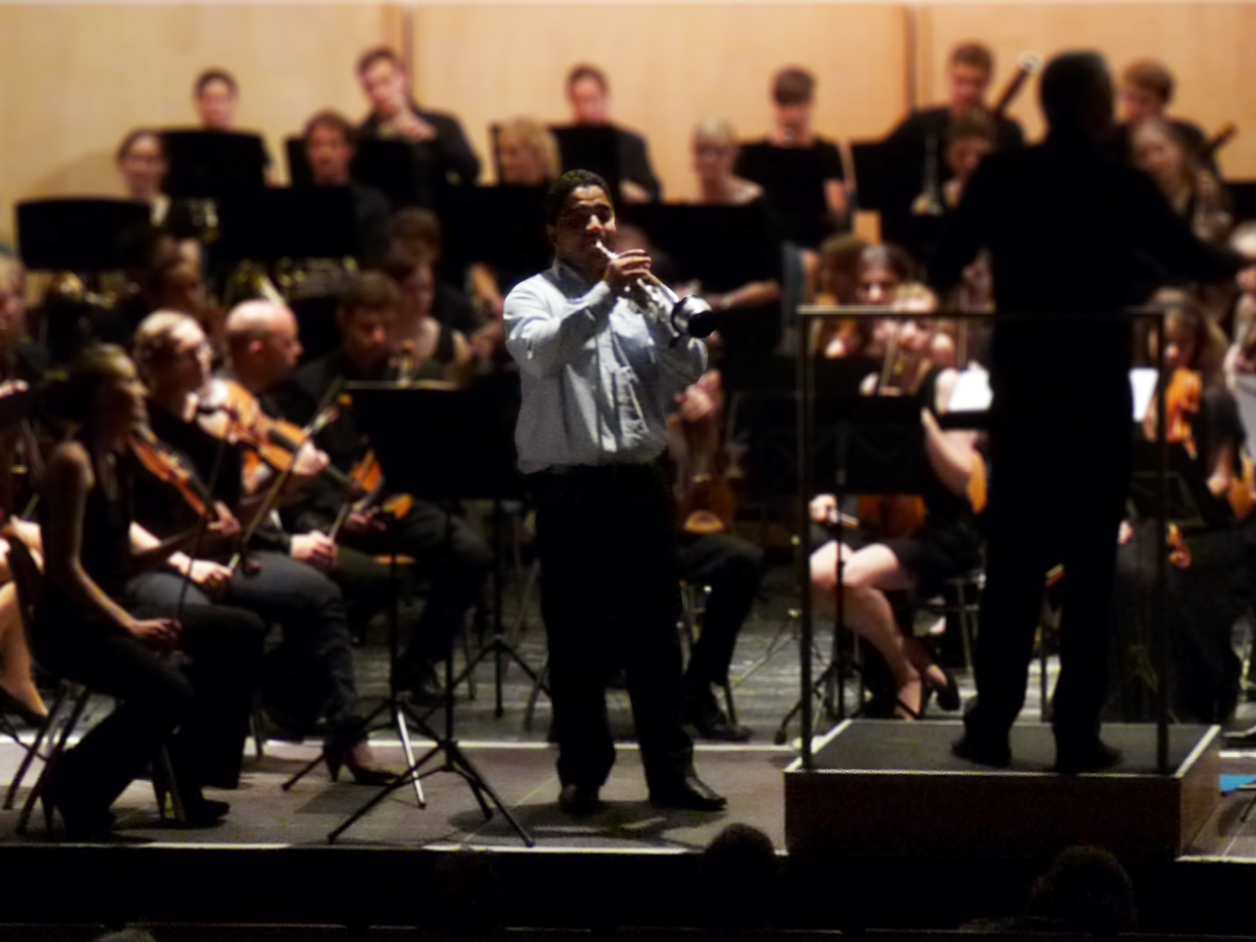 Nicaraguan trumpet player David Salomon Jarquín with Junges Sinfonieorchester Münster (Germany)